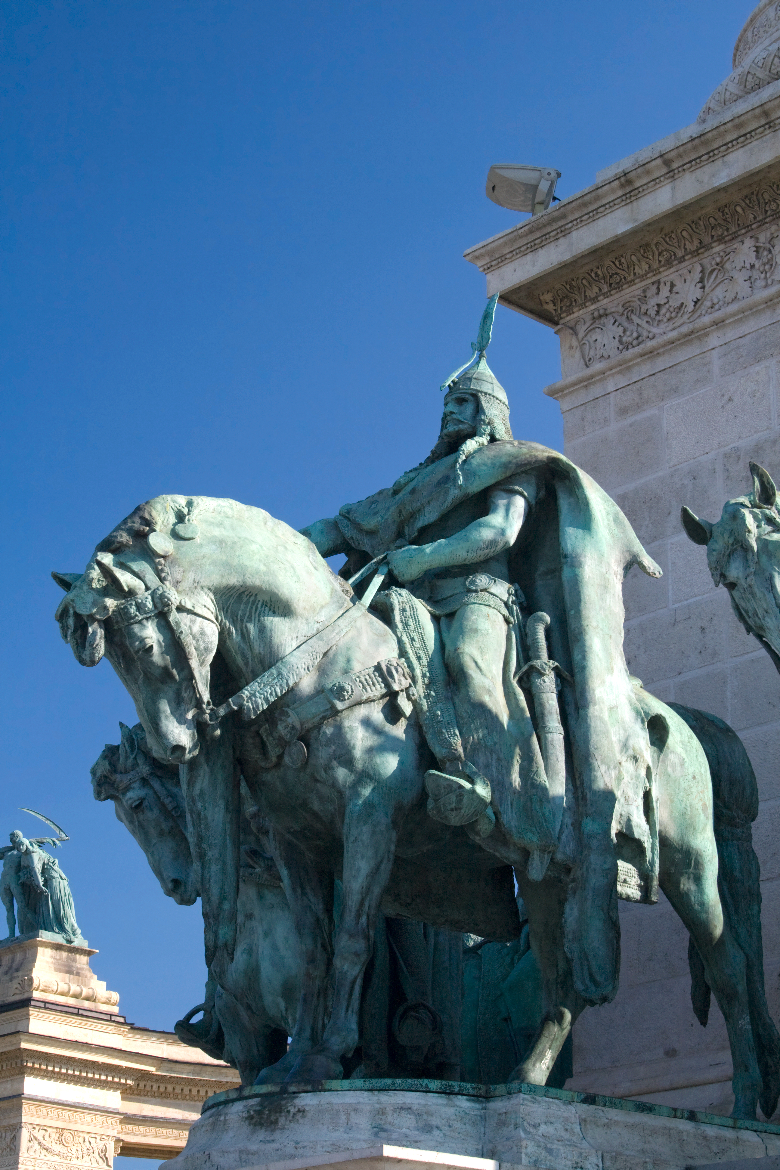 Statue of King Arpad in Heroes' Square, Budapest